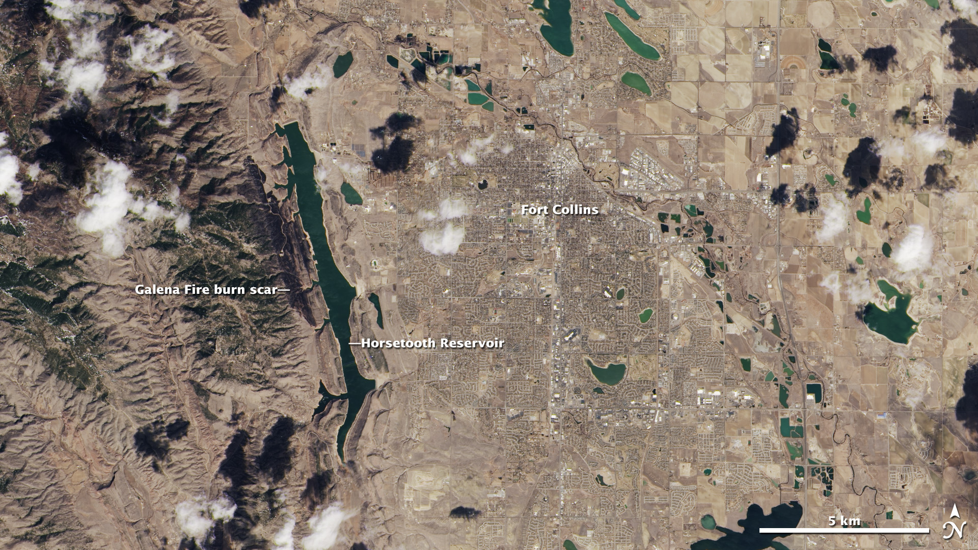 Click and drag the slider bar to compare these LDCM images, which zoom into the area around Fort Collins, Colo. On the left, the image is shown in natural color, created using data from OLI spectral bands 2 (blue), 3 (green), and 4 (red). The image on the right was created using data from OLI bands 3 (green), 5 (near infrared), and 7 (short wave infrared 2) displayed as blue, green and red, respectively. In the left-hand natural color image, the city's elongated Horsetooth Reservoir, a source of drinking water, lies west of the city. A dark wildfire burn scar from the Galena Fire is visible just to the left of the reservoir. The scar shows up bright, rusty red in the false color image.